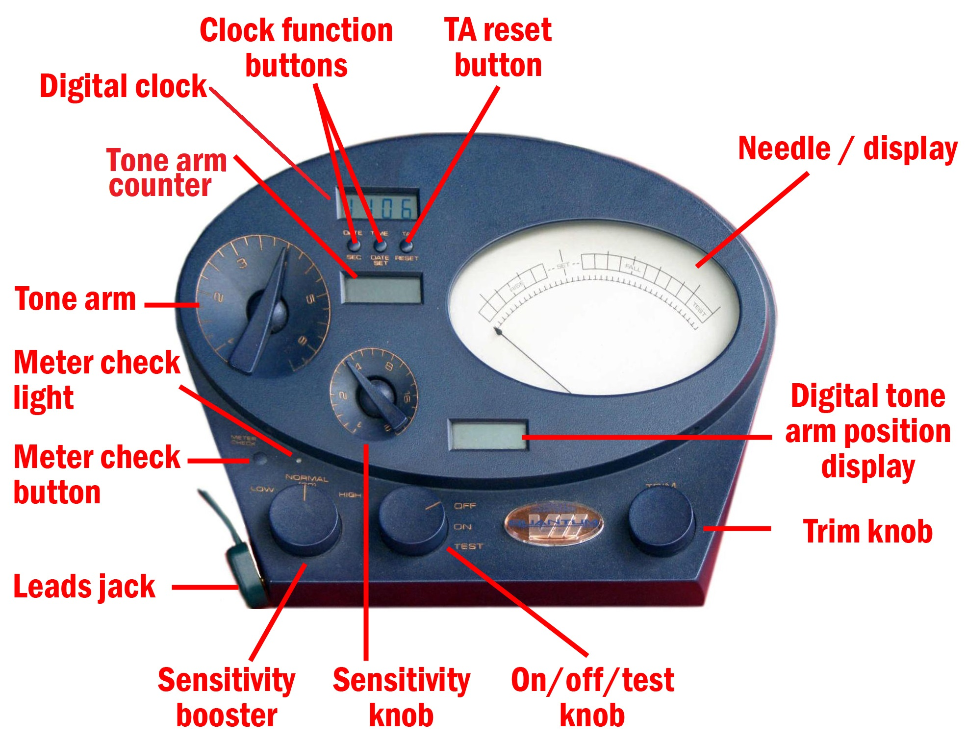 A blue 'e-meter', a ritual device used by the Church of Scientology. Photo by User:Salimfadhley.